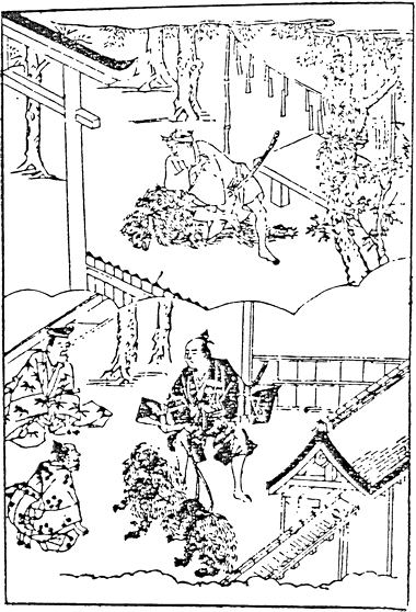 Sarugami (猿神, Wicked monkey spirit which was defeated by a dog) from the Konjaku Monogatarishū (今昔物語集)